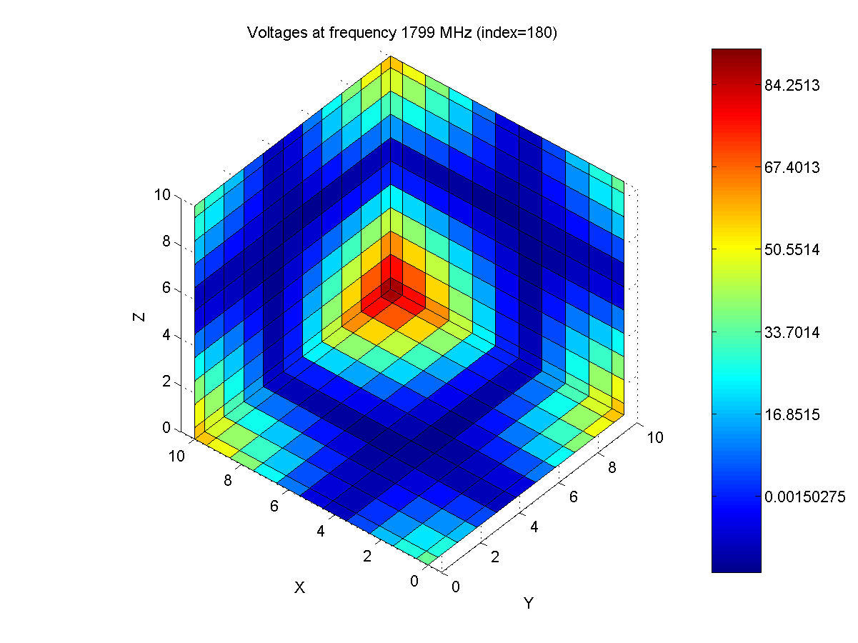 PEEC Simulation sample (Cube)